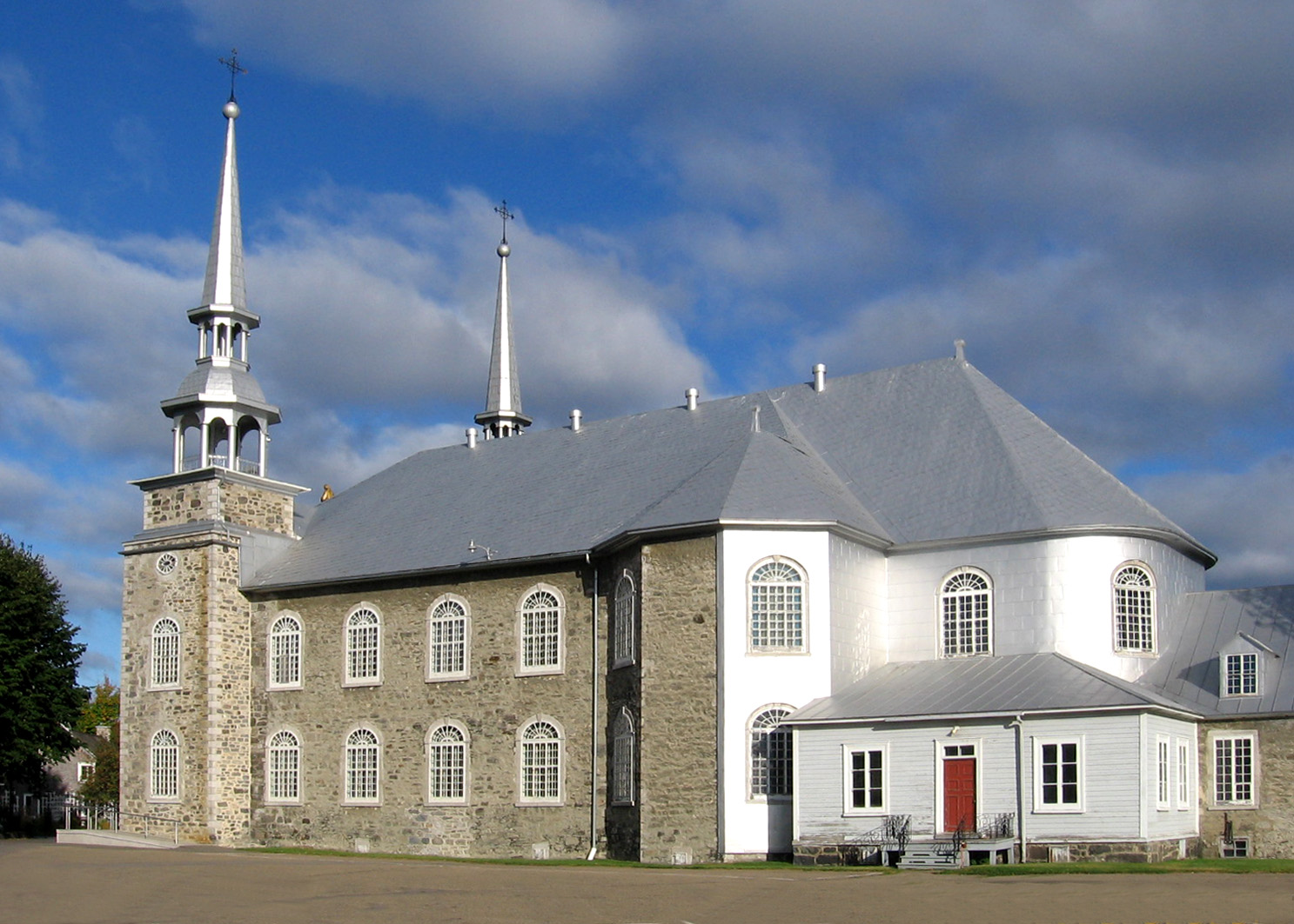 Church of Deschambault dating back to 1840